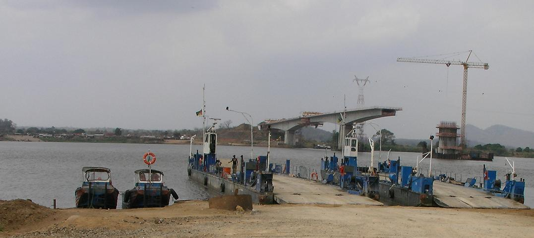 Ferries in this photo are used exclusively for the construction of what will be the longest road bridge over the Zambezi.